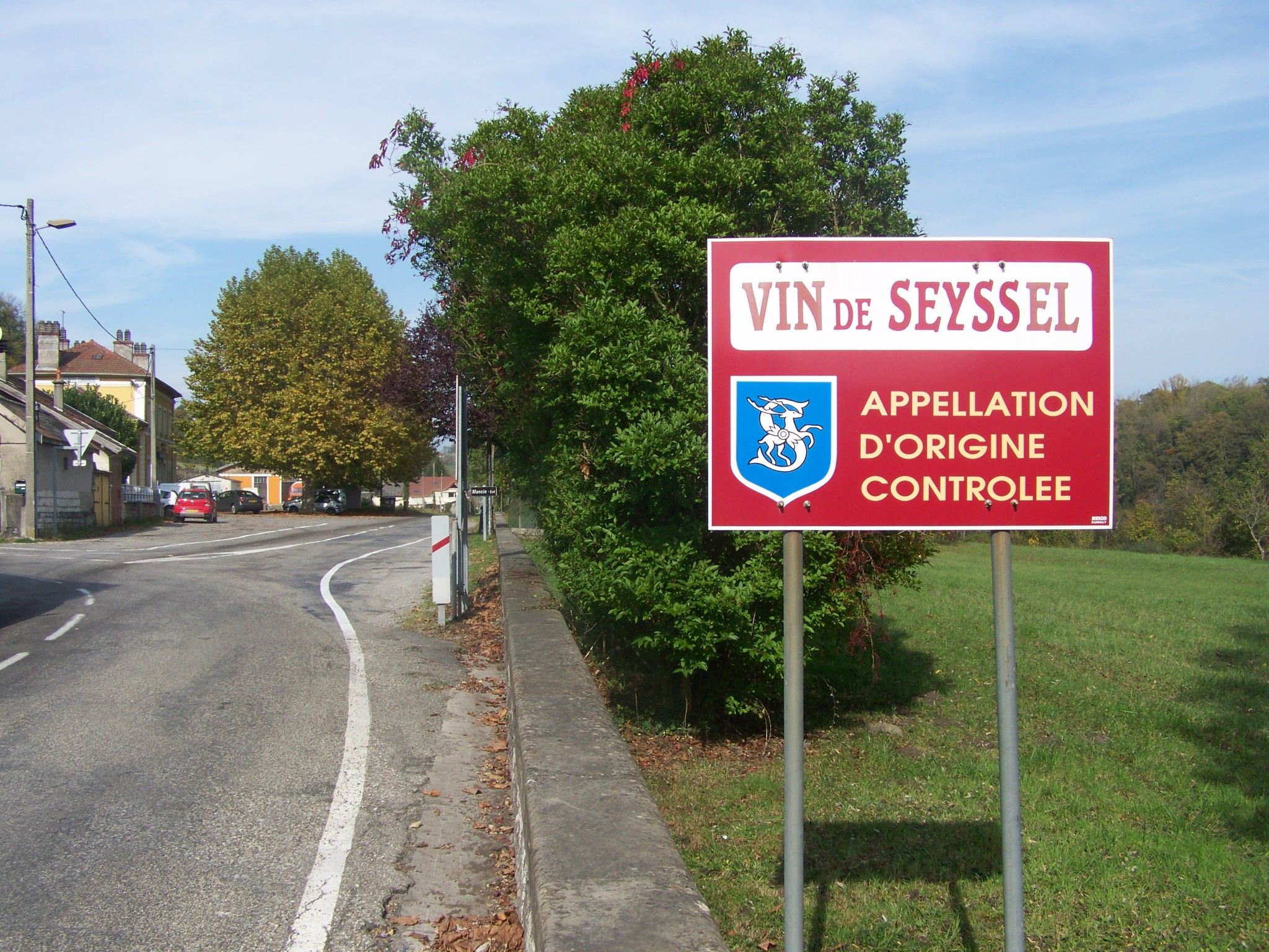 Sign informing about AOC ("controlled terms of origin") of wines from the two-department-belonging communes of Seyssel (departements of Ain et Haute-Savoie).